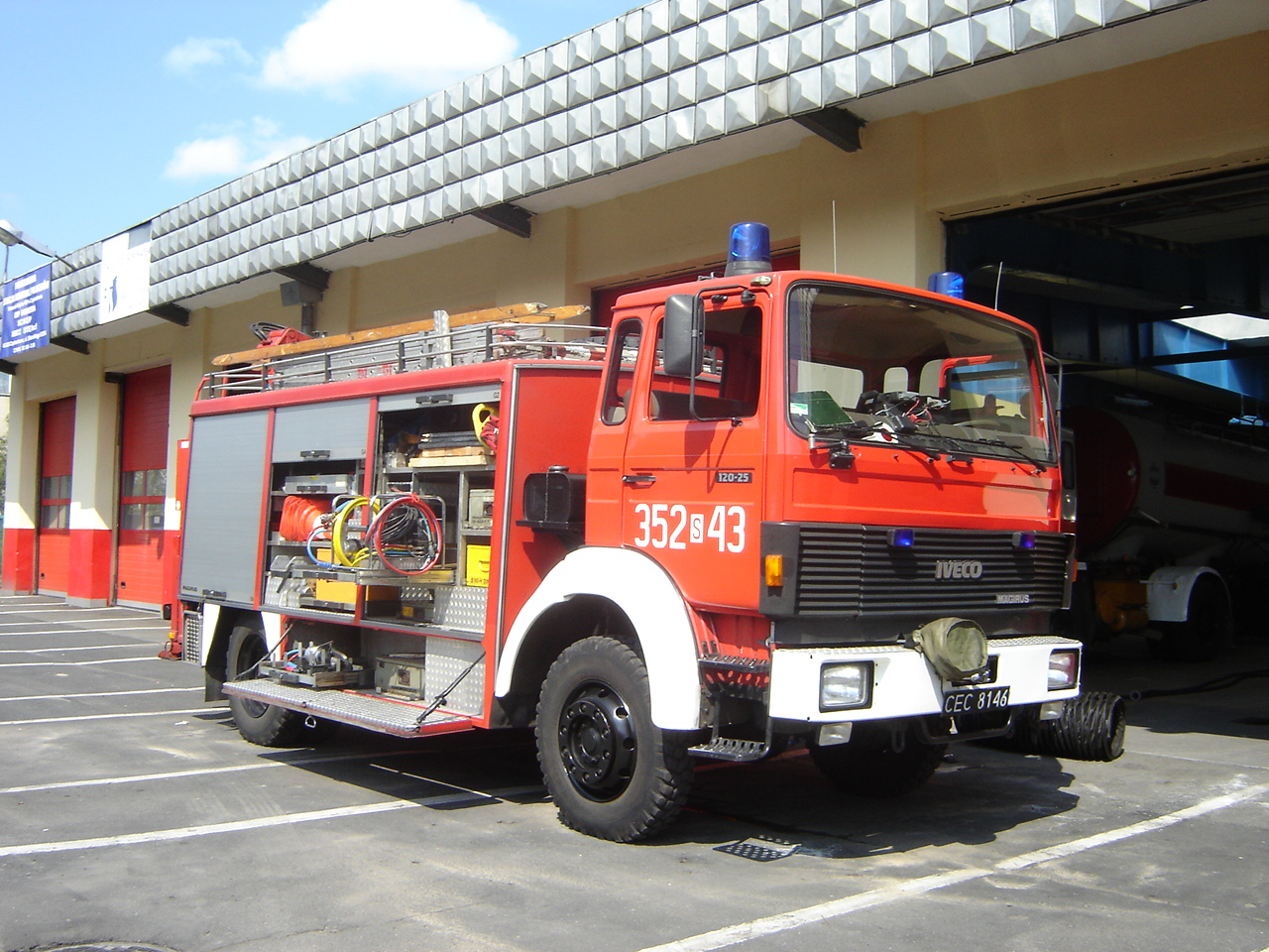 Polish technical rescue truck Iveco-Magirus 120-25 SRt of Częstochowa Fire Brigade